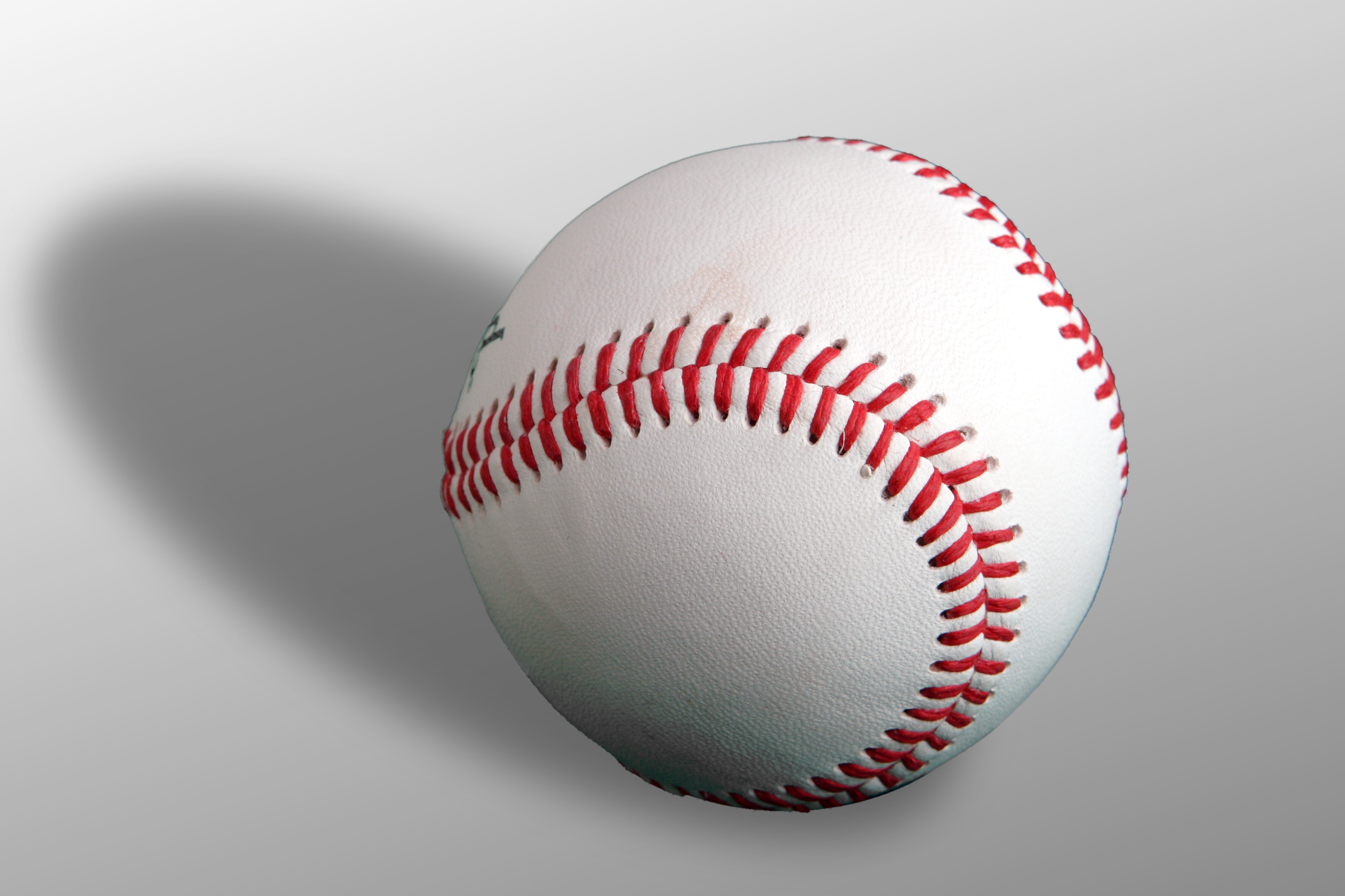 A baseball. Illustration derived from photo taken by Tage Olsin.